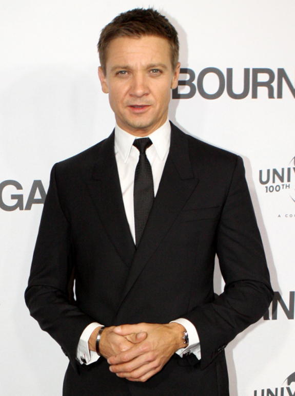 Jeremy Renner at the The Bourne Legacy Australian Premiere at State Theatre, Sydney, Australia 2012.